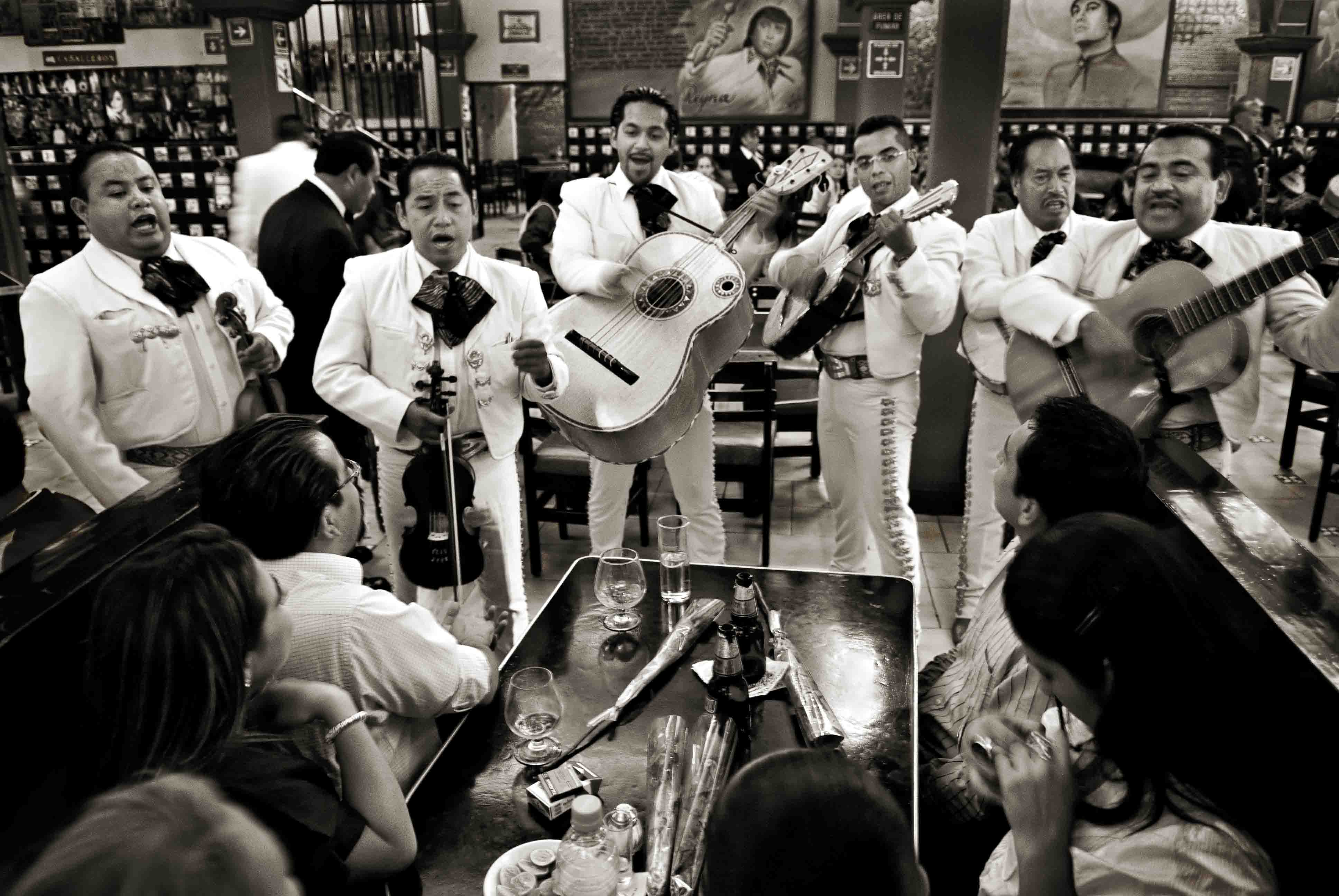 Guillaume Corpart Muller, Guillaume Corpart Muller, Owner